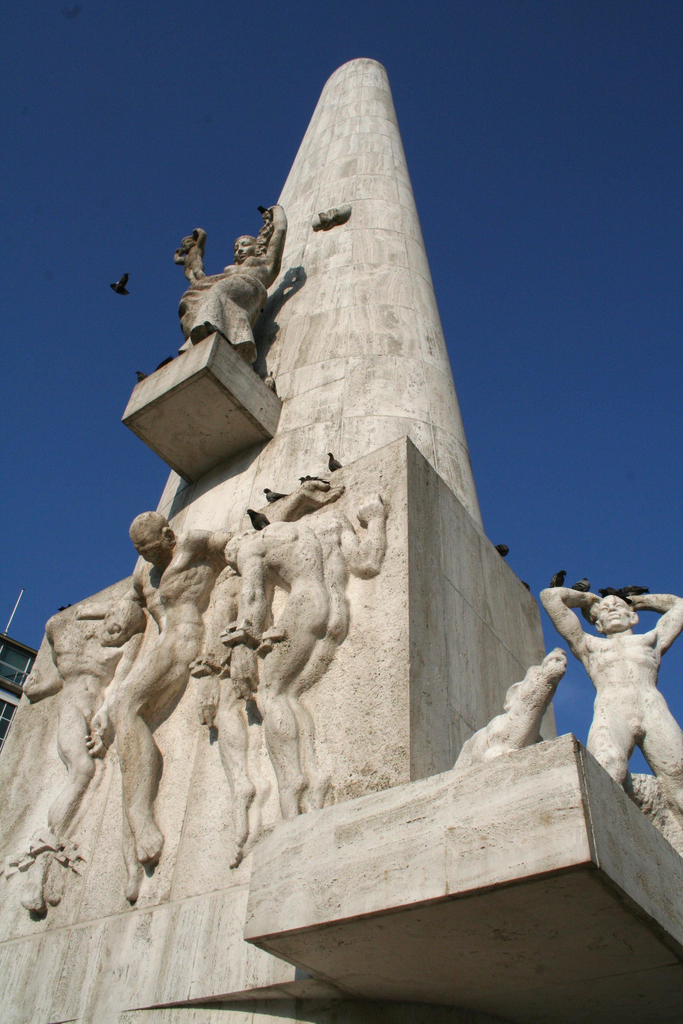 National Monument in Amsterdam/the Netherlands